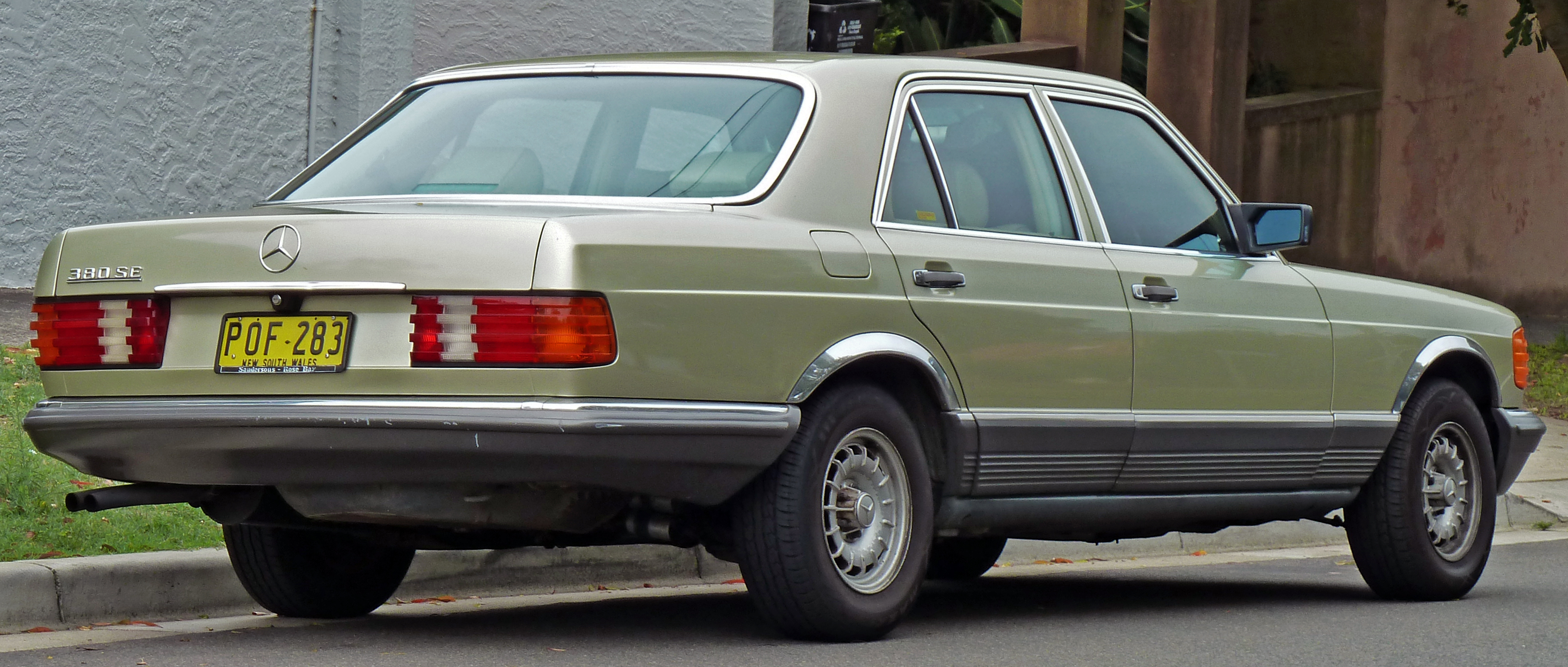 1983–1985 Mercedes-Benz 380 SE (W 126) sedan. Photographed in Bellevue Hill, New South Wales, Australia.